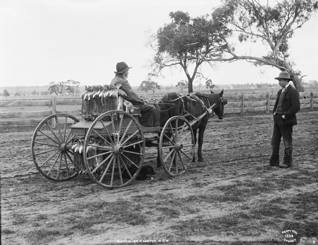 'Rural Life' Pictures from The Powerhouse Museum